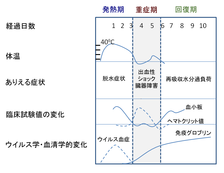 The course of Dengue illness. Based on WHO Guidelines, 2009